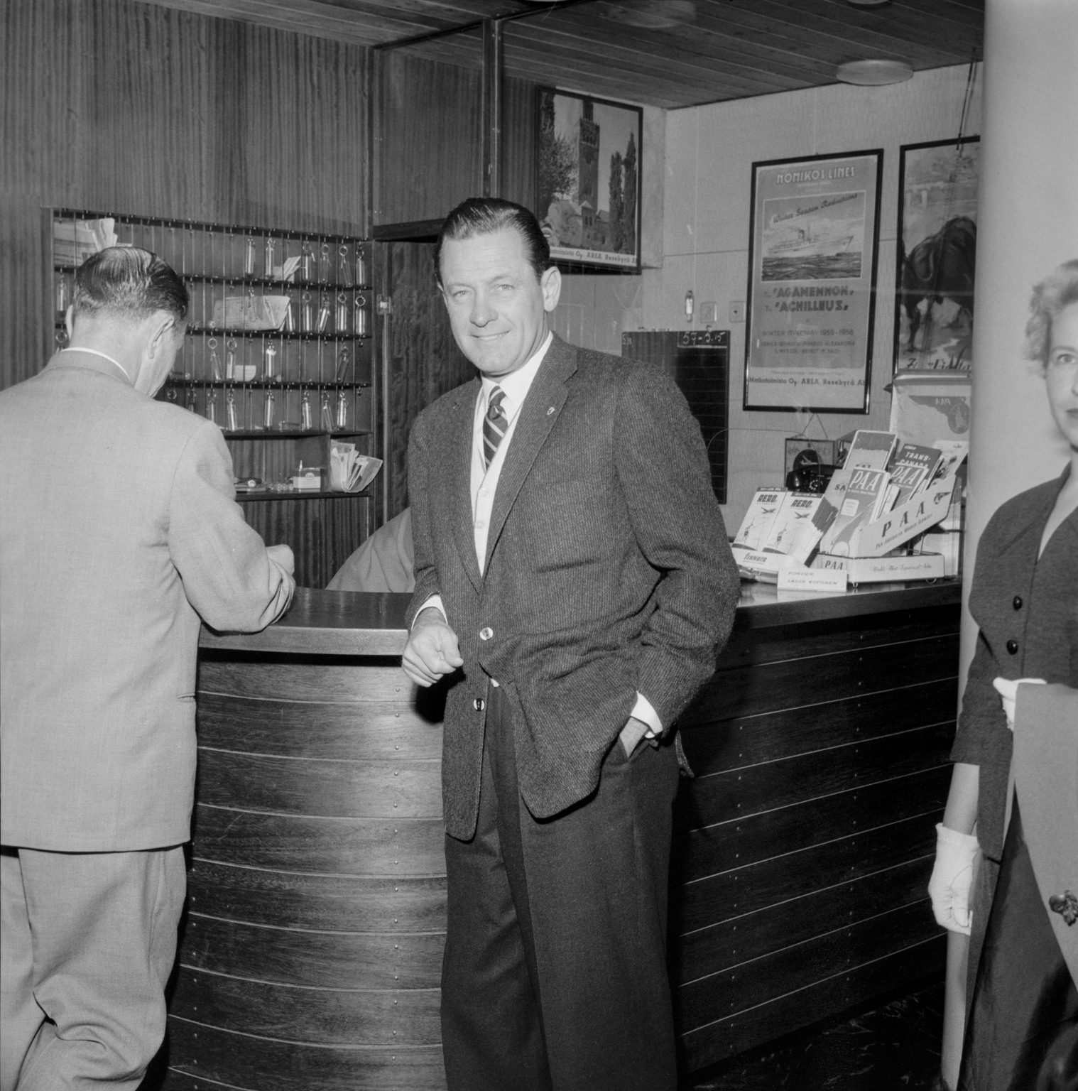 Photograph of the American actor William Holden (1918–1981) during his visit to Finland, here in the lobby of Palace Hotel, Helsinki.